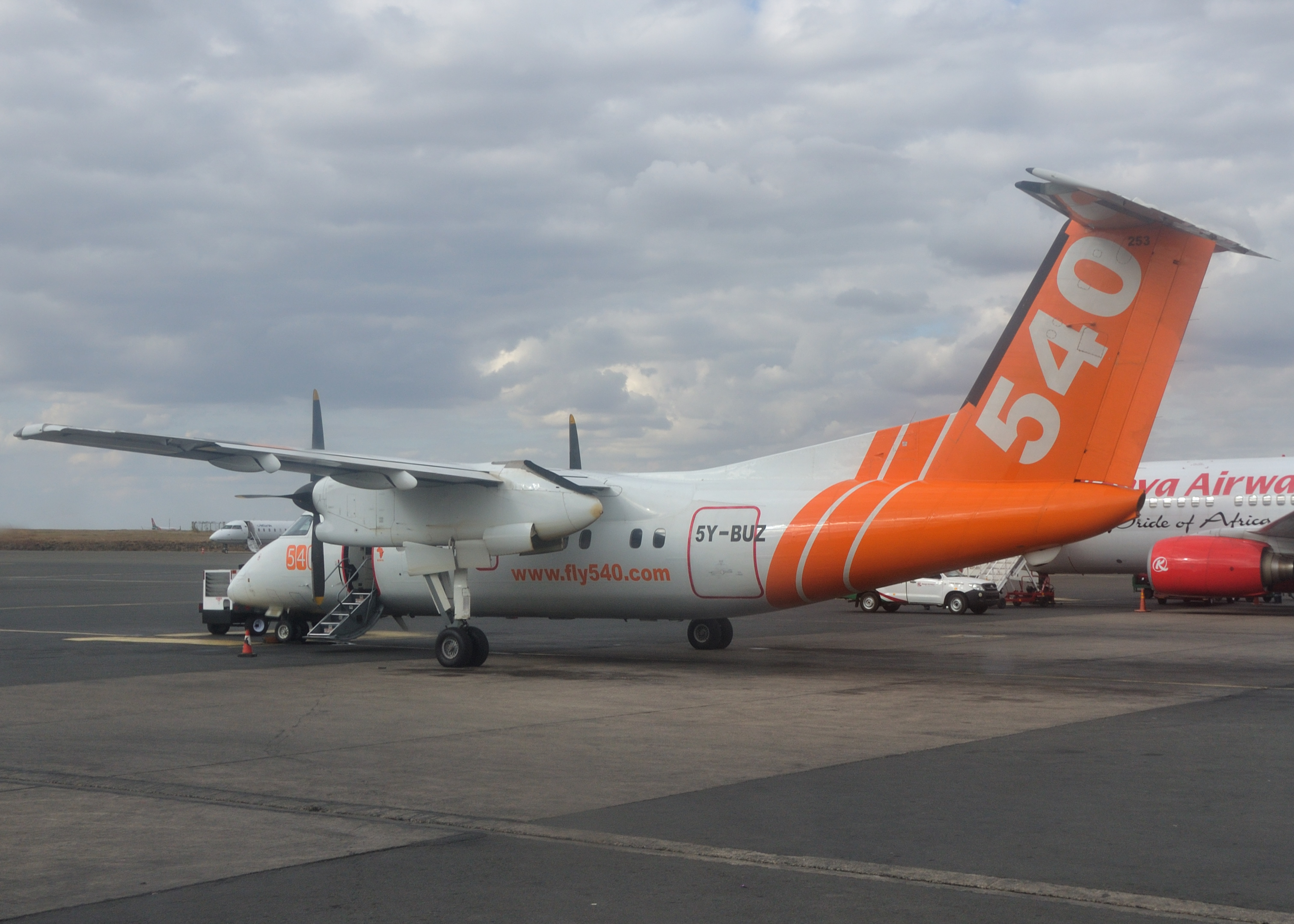 Kenya, Fly540's Dash-8 (5Y-BUZ) parked in Nairobi